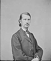 American politician and diplomat Horace Maynard, photographed during the Civil War.